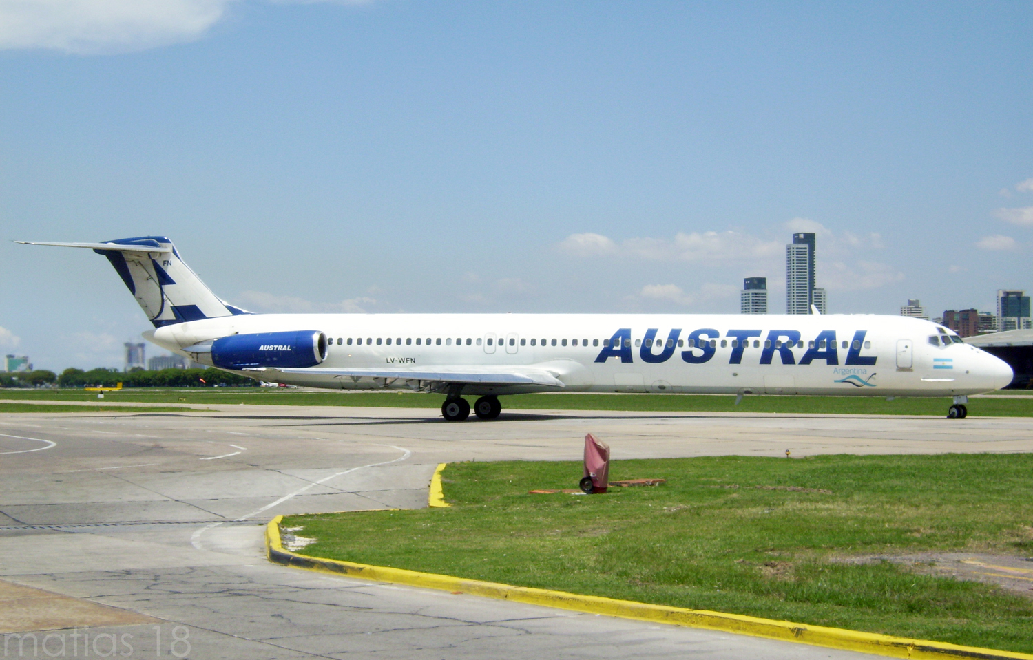 Austral Líneas Aéreas MD-81 reg LV-WFN taxing to RWY13 at Aeroparque Jorge Newbery.